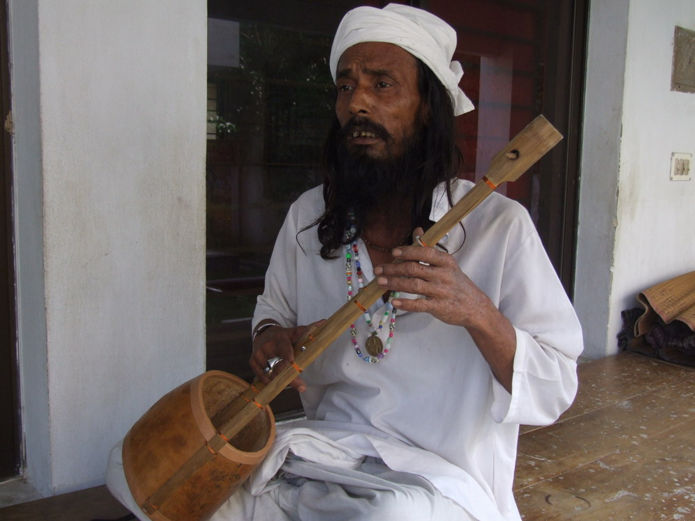 Lalon Shah's tomb and mazar in Kushtia, Bangladesh